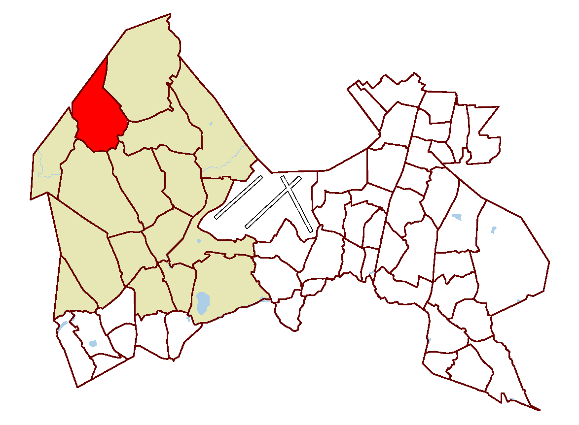 District of Luhtaanmäki (marked red), within Martinlaakso service area (marked light brown) in Vantaa, Finland